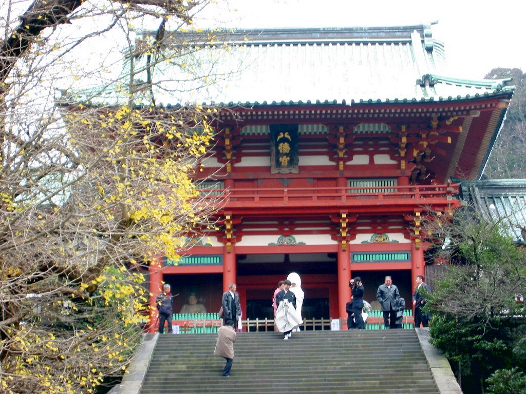 A Japanese traditional wedding ceremony has been organized in Tsurugaoka Hachiman Shrine.